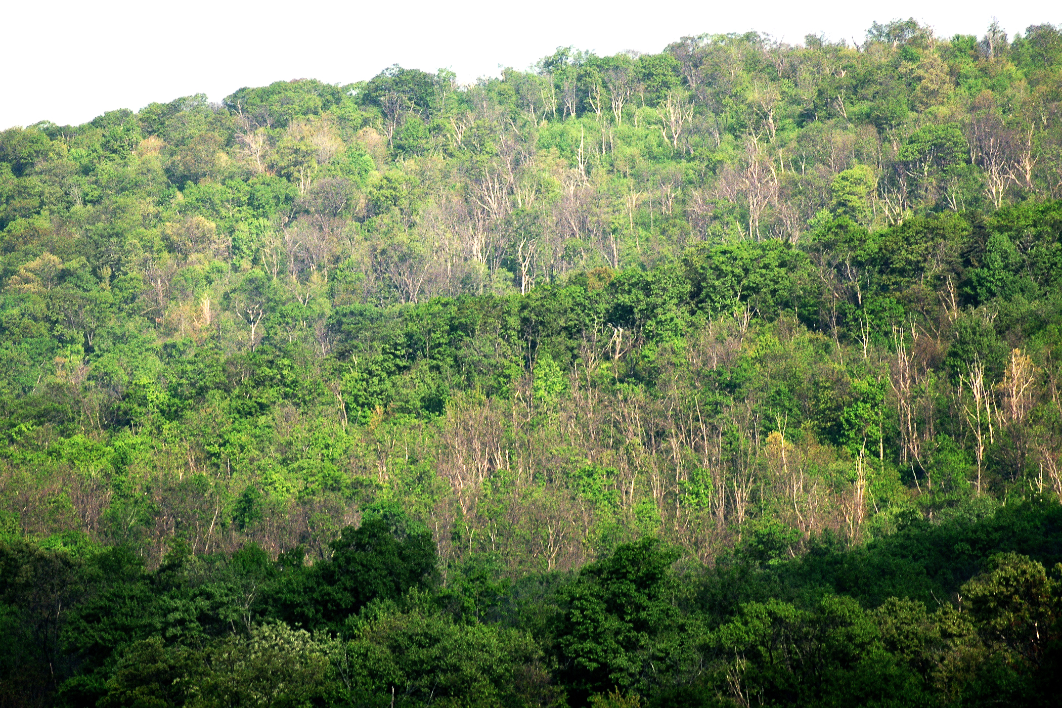 Gypsy moth damage